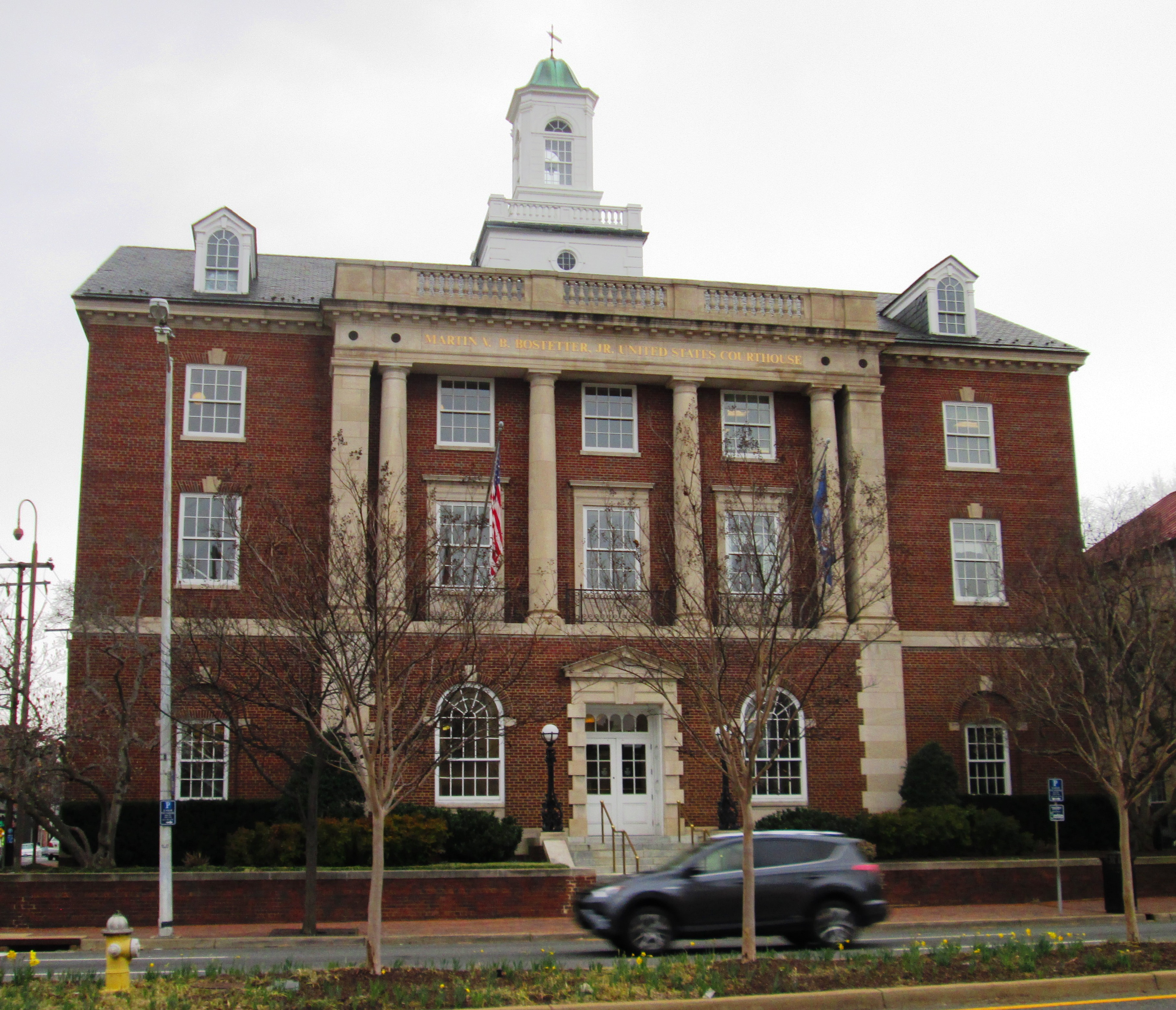 The Martin V. B. Bostetter, Jr. United States Courthouse, located at 200 S. Washington Street at the corner of Prince Street in Alexandria, Virginia, was built in 1930 in the Colonial Revival style. The building was originally a U.S. Post Office and Courthouse.